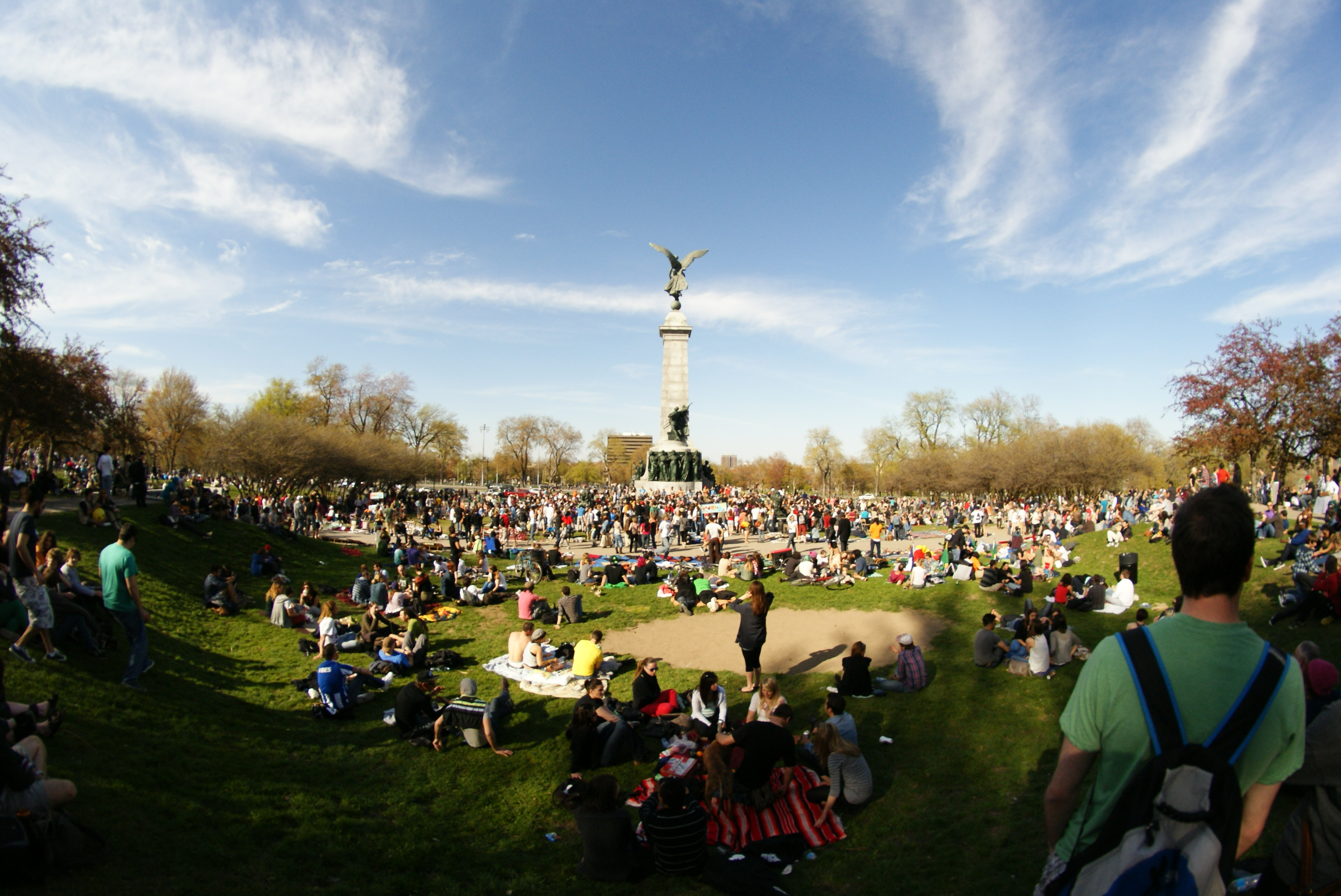 Tam tams at Montreal during a sunday of april 2012